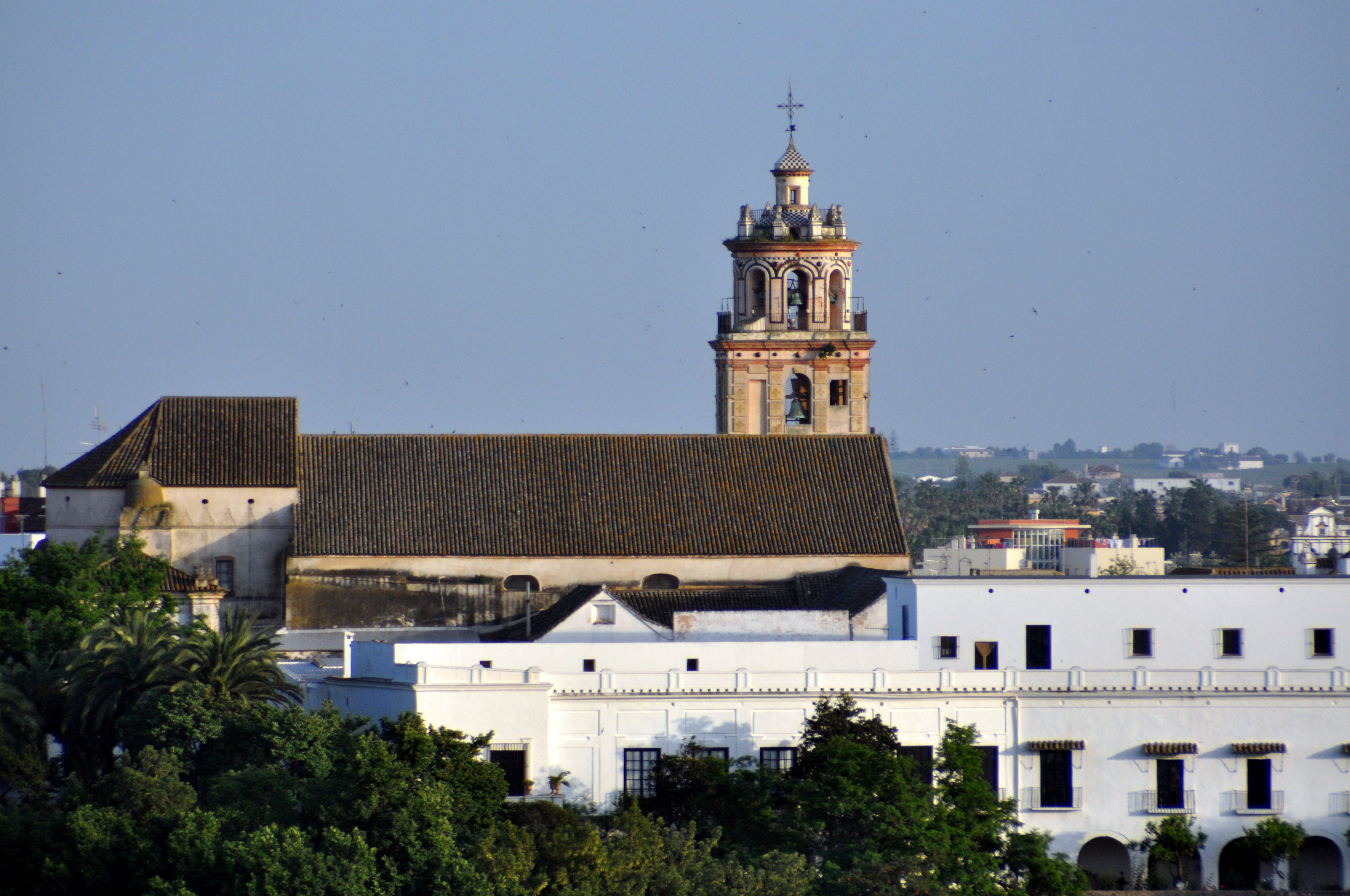 View of the Church of Our Lady of the O and the palace of the Dukes of Medina Sidonia. Sanlúcar de Barrameda, Cádiz, Spain. Picture taken from the top floor of the Guadalquivir Hotel.